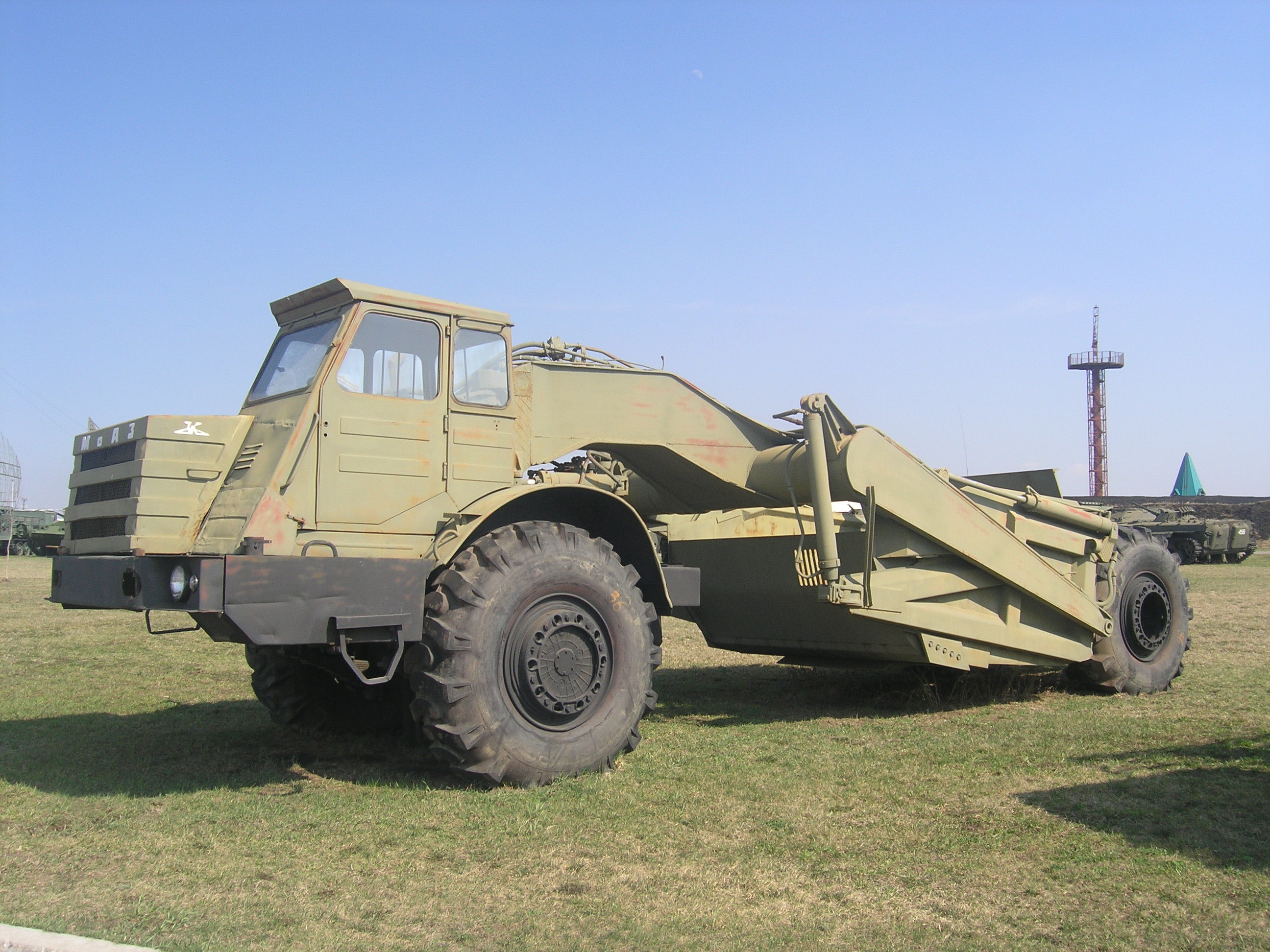 MOAZ-546P and scraper D357P